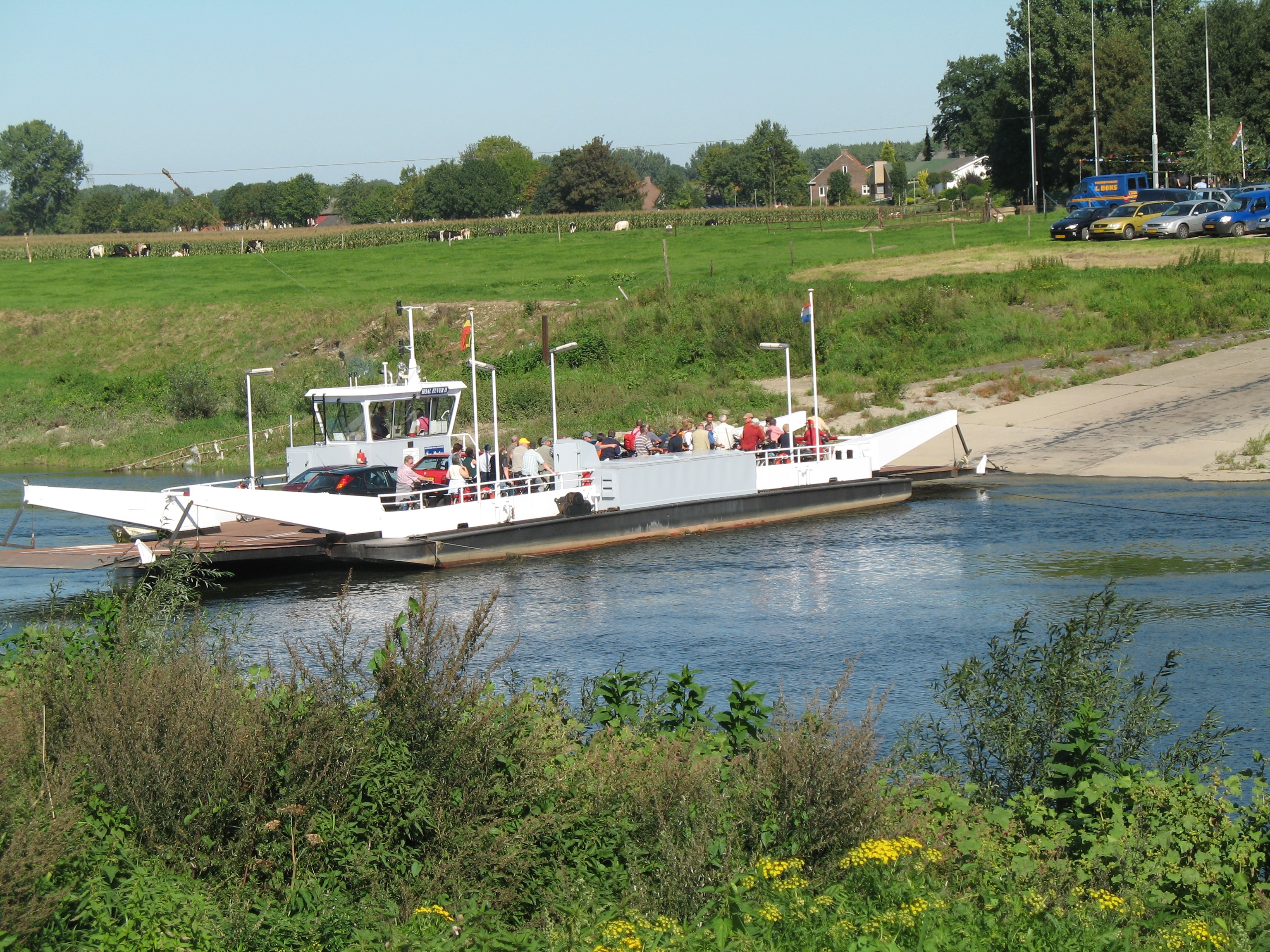 Ferry crossing the Meuse River between Meeswijk (Be) and Berg-a/d-Maas (Nl)